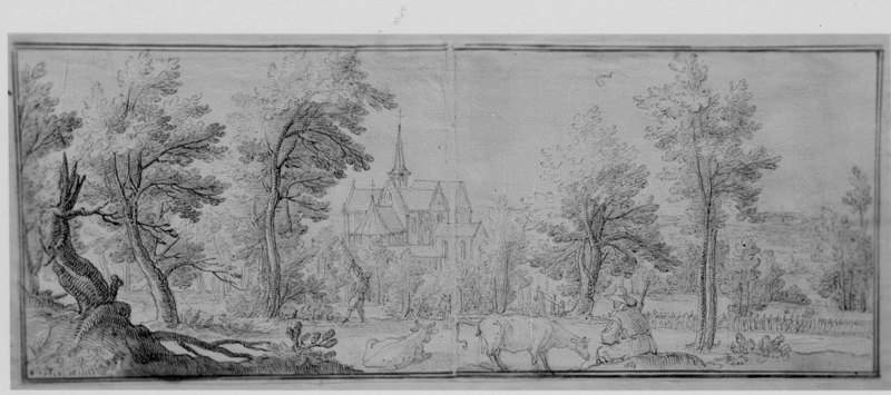 Abbey church of Vorst, by Remigio Cantagallina. Drawing in pen and wash on paper, 15.4 x 39.8 cm. Dated "1613" and annotated "Vorst". Royal Museums of Fine Arts, Brussels (inv. 2994/68)